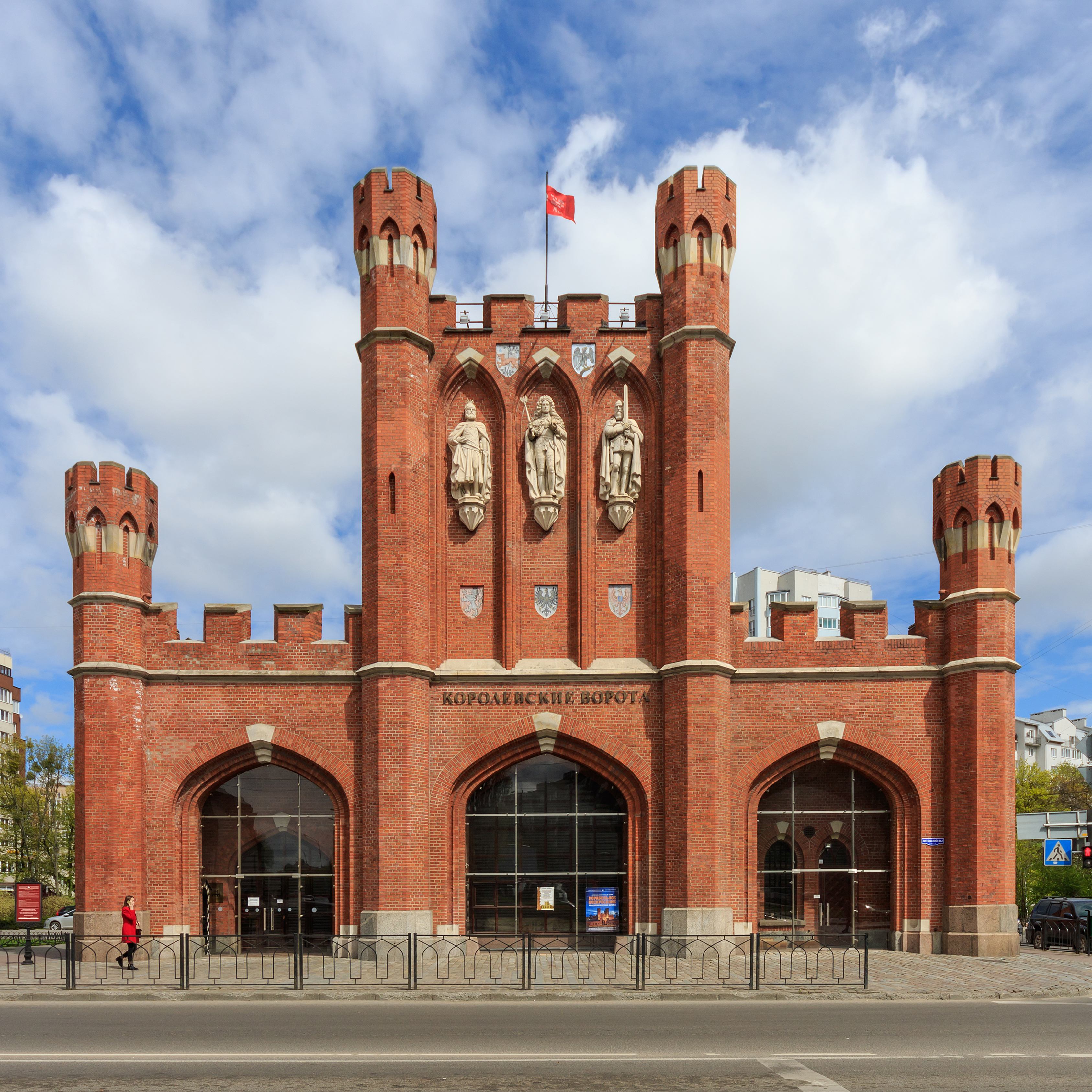 King's Gate in Kaliningrad formerly Königsberg, Kaliningrad Oblast (Russia).